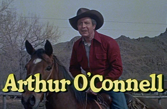 Screenshot of Arthur O'Connell from the trailer for the film Bus Stop